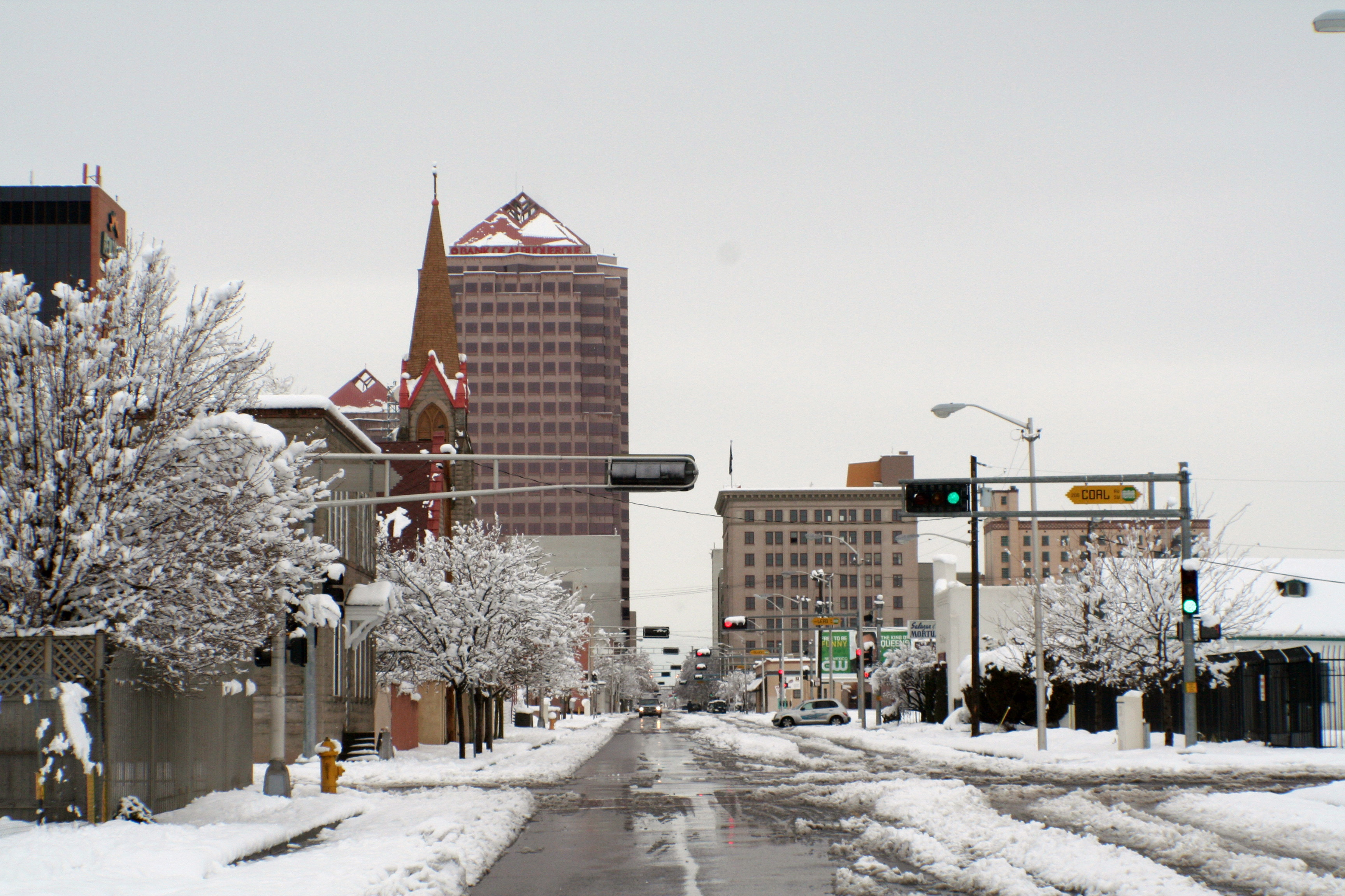 On 3rd Street looking north toward Downtown Albuquerque, December 2006.